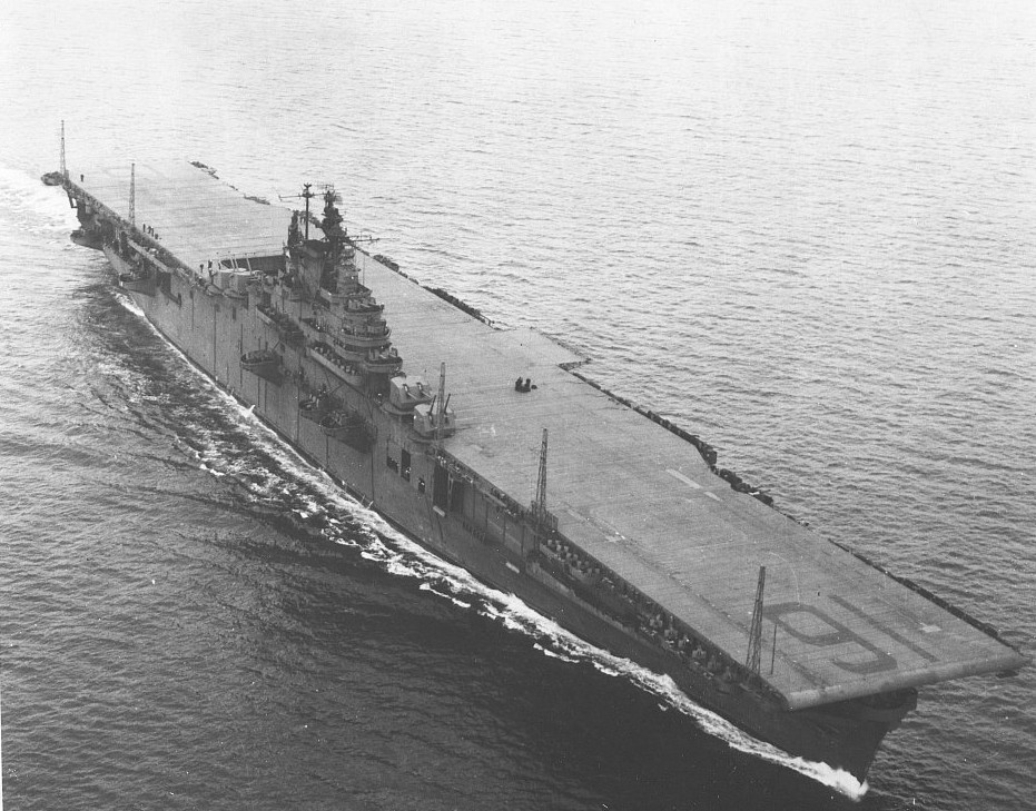 The U.S. aircraft carrier USS Lexington (CV-16) after the repair of the torpedo damage sustained on 4 December 1943. The photo was probably taken on the day of the completion of her repairs, on 20 February 1944.